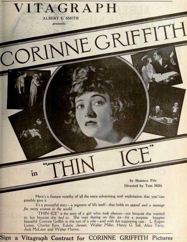 Ad for the American film Thin Ice (1919) with Corinne Griffith, on page 1117 of the May 24, 1919 Moving Picture World